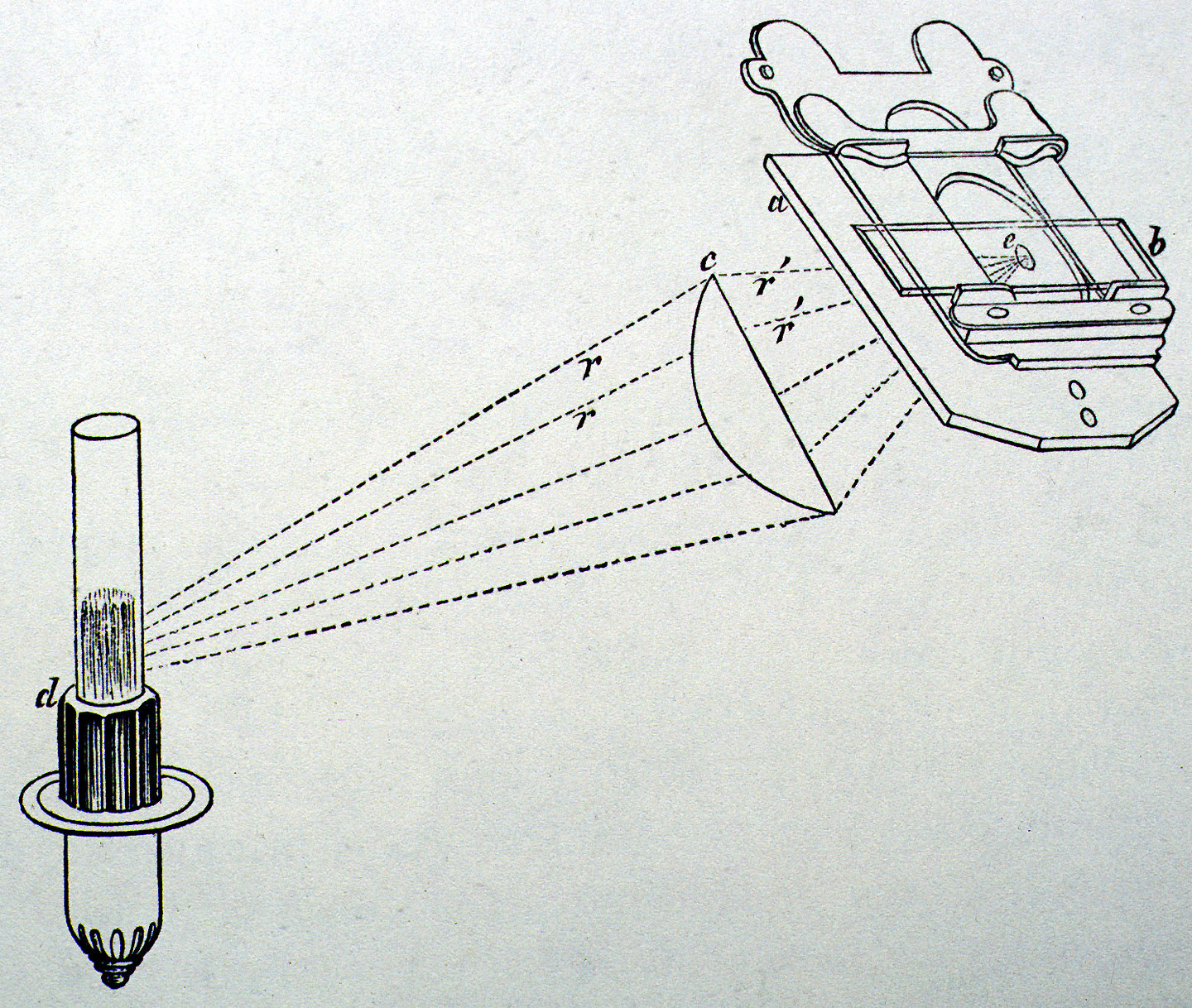 "Background Illumination" for the light microscope after J. B. Reade (1837) as described by John Queckett, 1855. Description from the original publication: a b represents the stage of the microscope in an inclined position; c a condensing lens placed below and on one side of the stage; d a lamp also placed below the stage and at some distance from it; the rays of light r r r' r' emanating from the lamp,are thrown obliquely upon the object e, and only those that are refracted by the glass, or by the object under examination, will pass through the comound body to the eye: some objects, when viewed in this way, will appear beautifully illuminated on a field of view that is nearly, if not quite, dark.